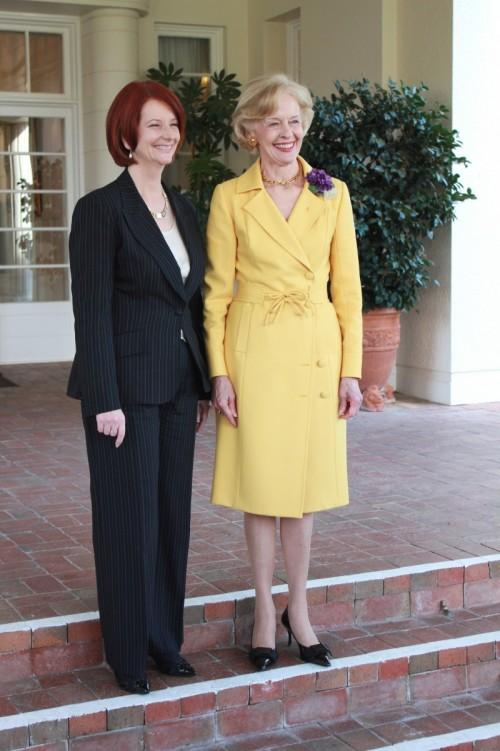 Julia Gillard, with Governor-General of Australia Dame Quentin Bryce, after her swearing in as 27th Prime Minister of Australia on 24 June 2010 at Government House, Canberra.